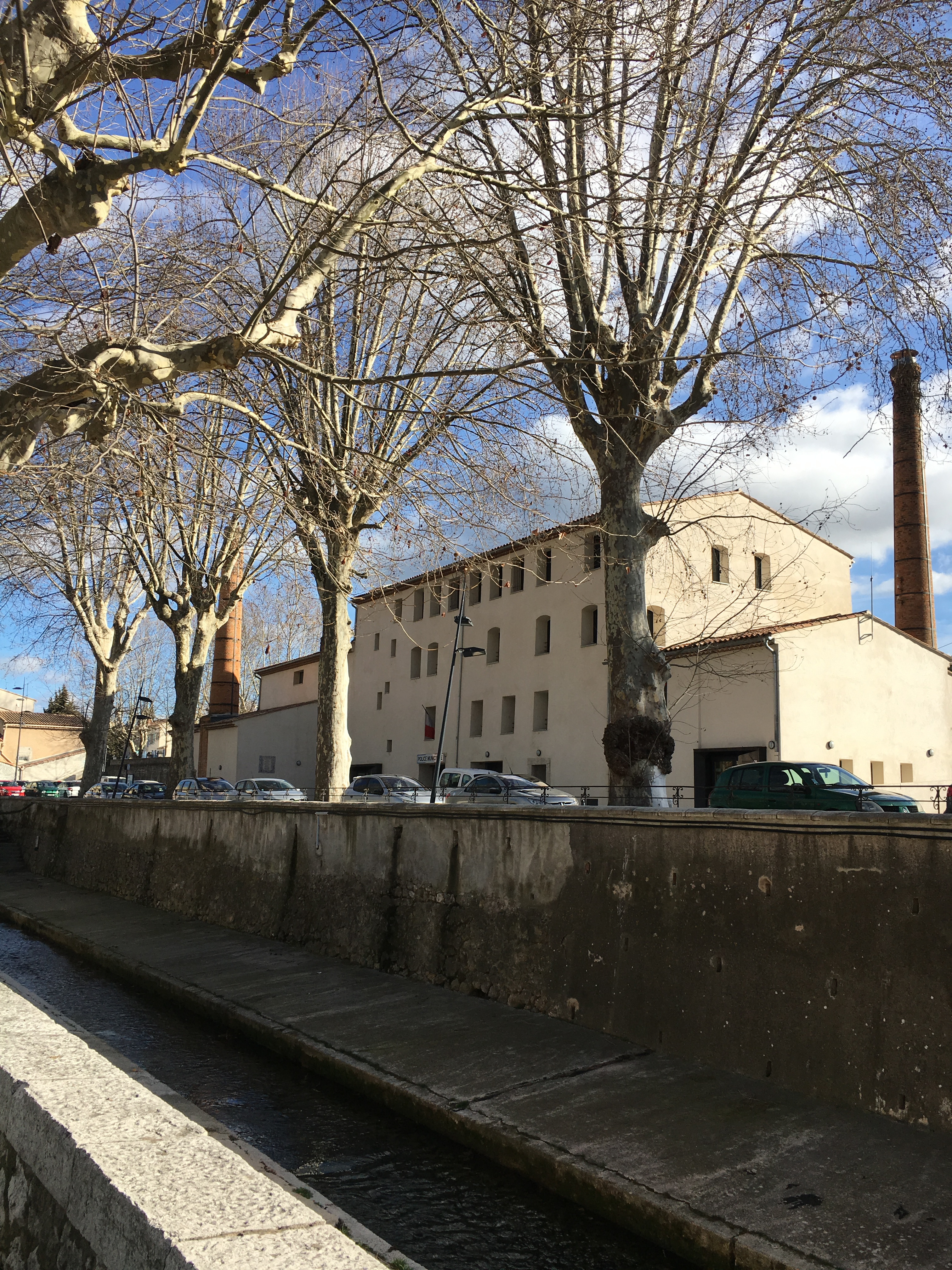 vue prise du quai du 8 Mai